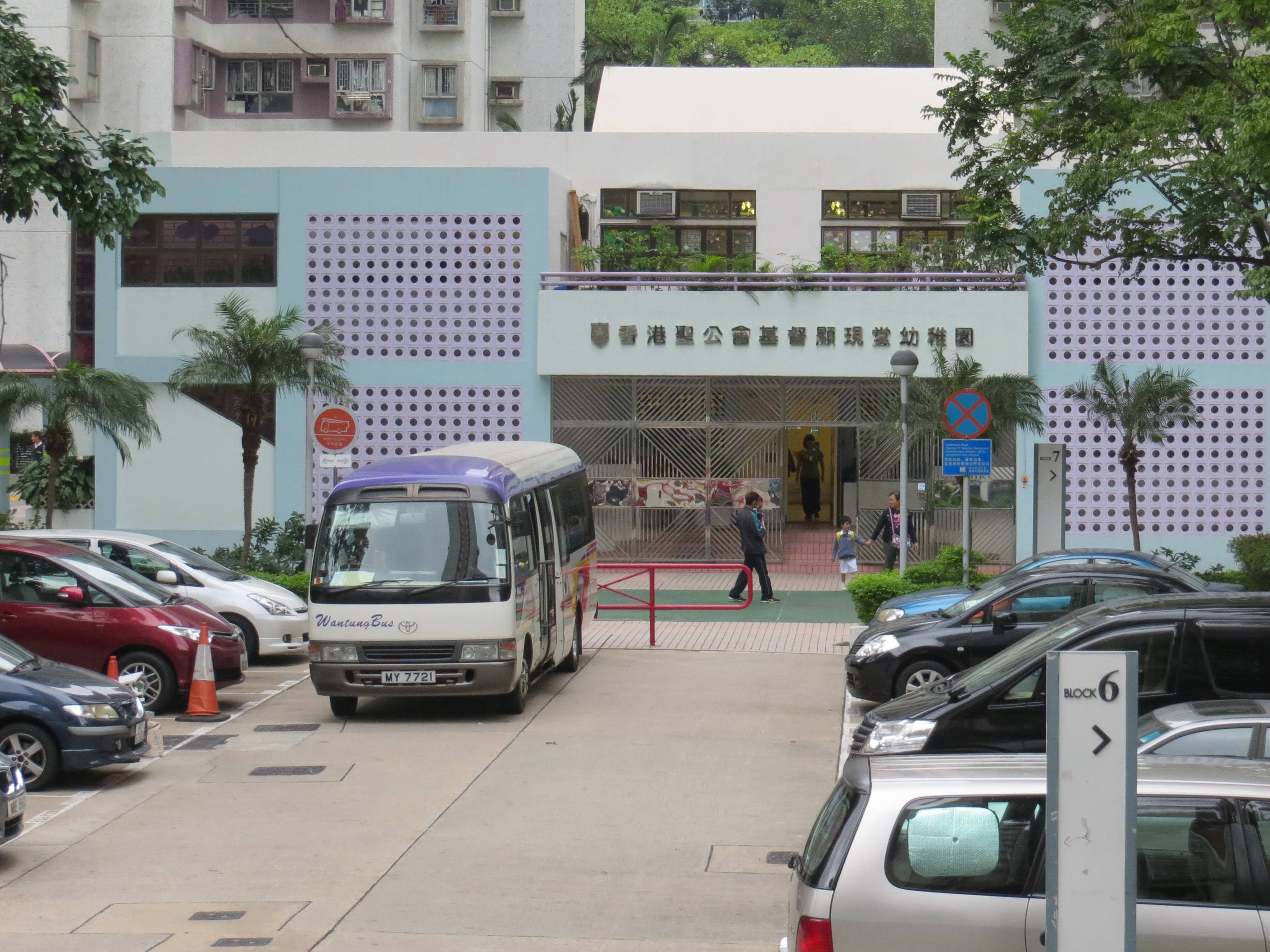 Hong Kong Sheng Kung Hui The Church of the Epiphany Kindergarten (Broadview Garden, 1 Tsing Luk Street, Tsing Yi, New Territories, Hong Kong)